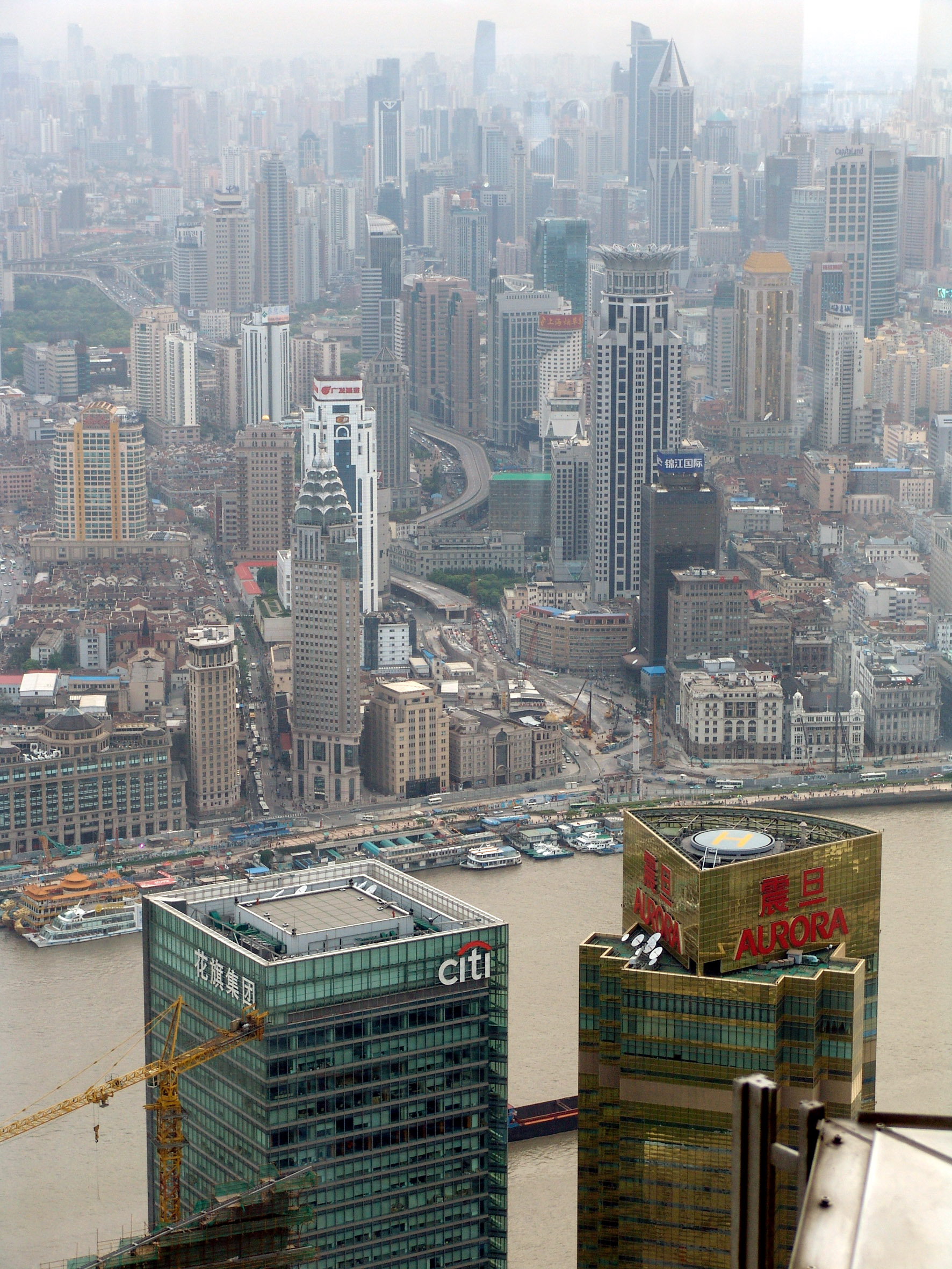 Jinmao. View in west part of city overhand